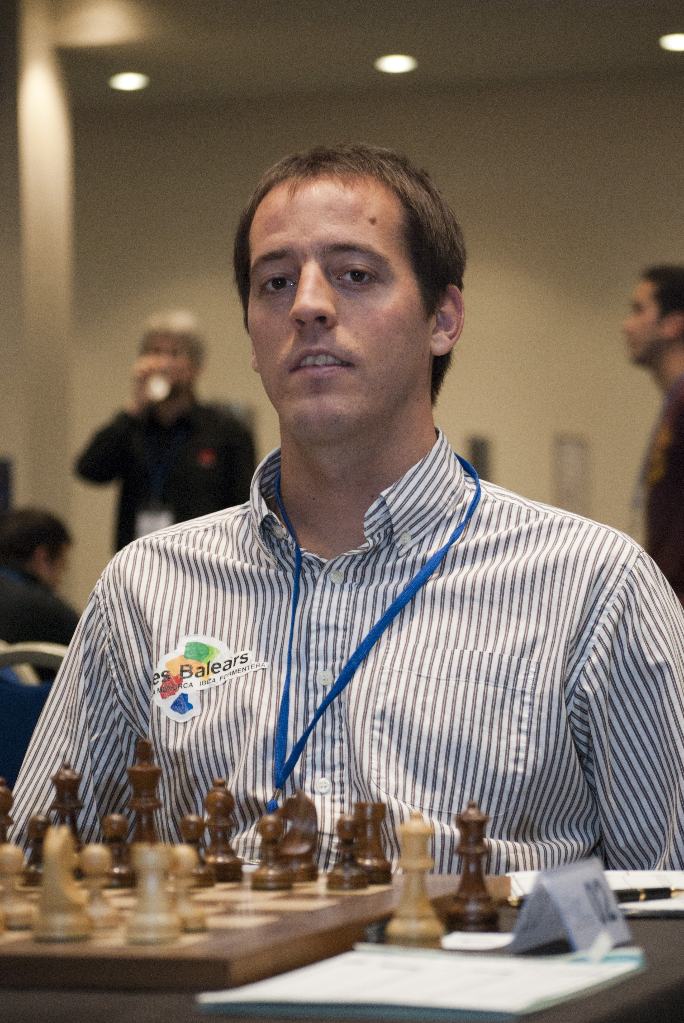 GM Francisco Vallejo Pons, Porto Carras EchT 2011.